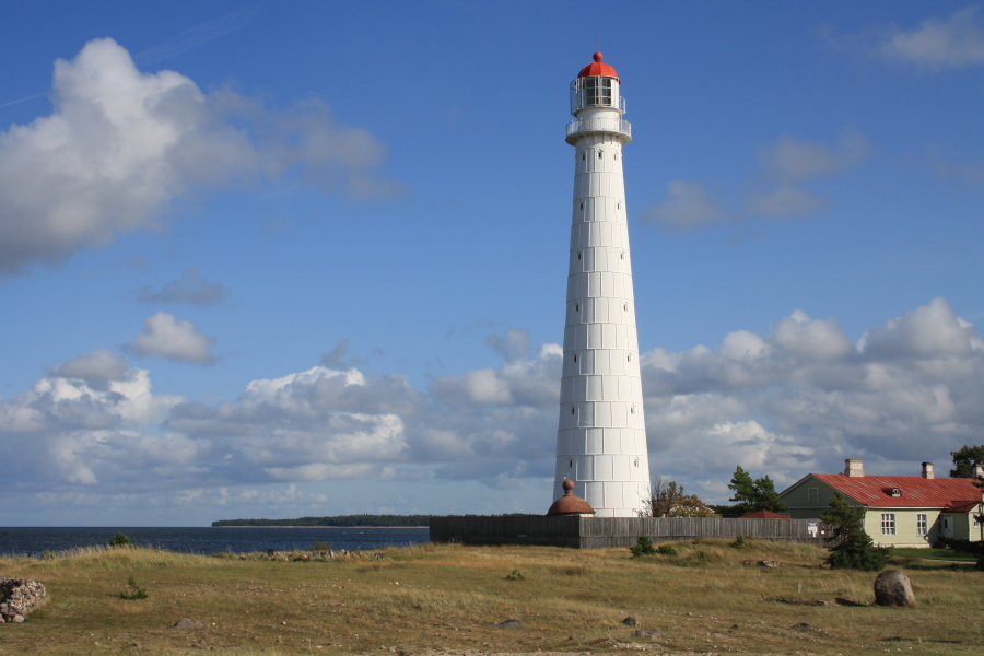 Tahkuna lighthouse on the northern coast of Hiiumaa island in Estonia